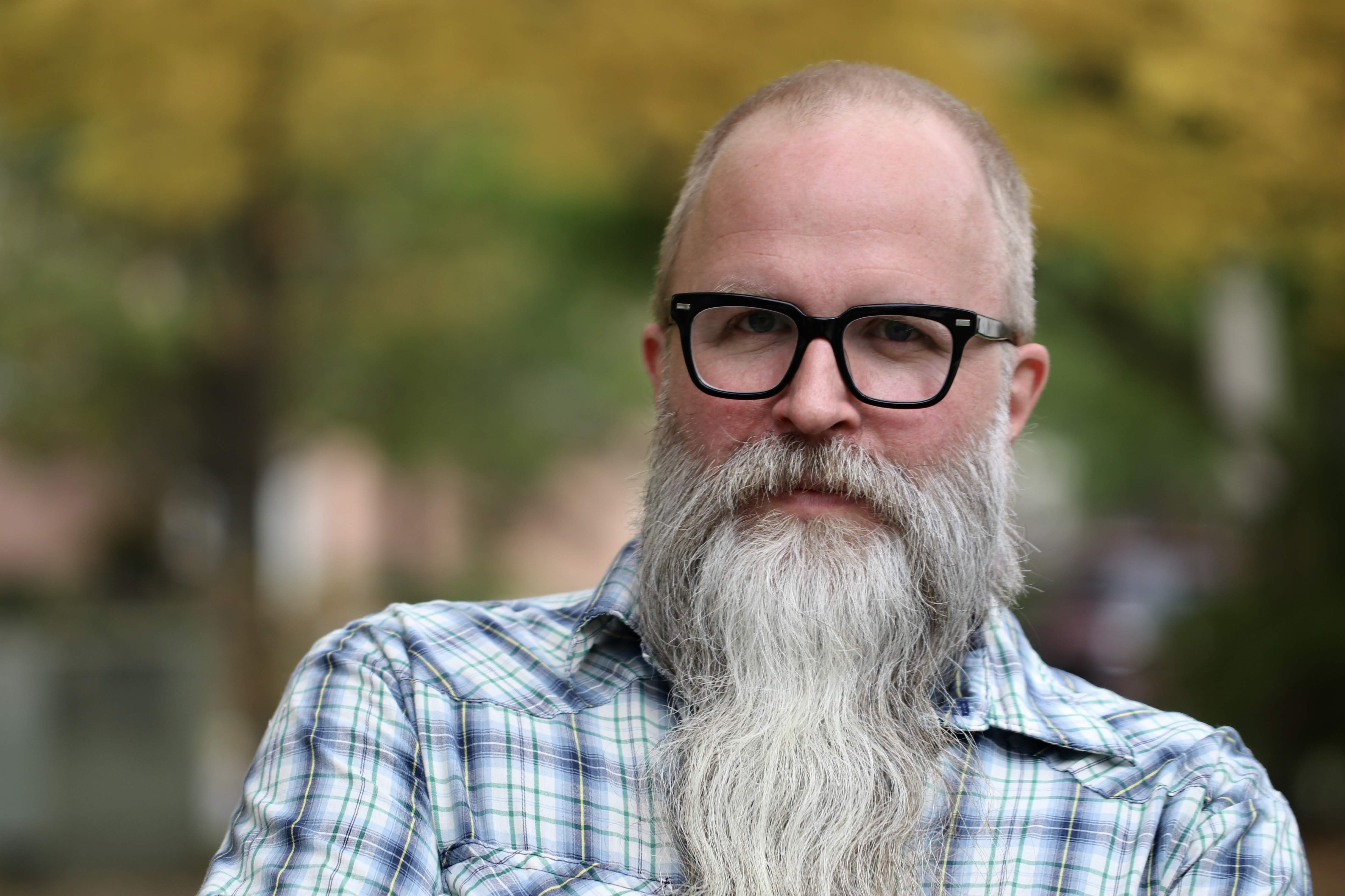 Headshot of author Dan Sinker, taken in October 2018, in a public park in North America.